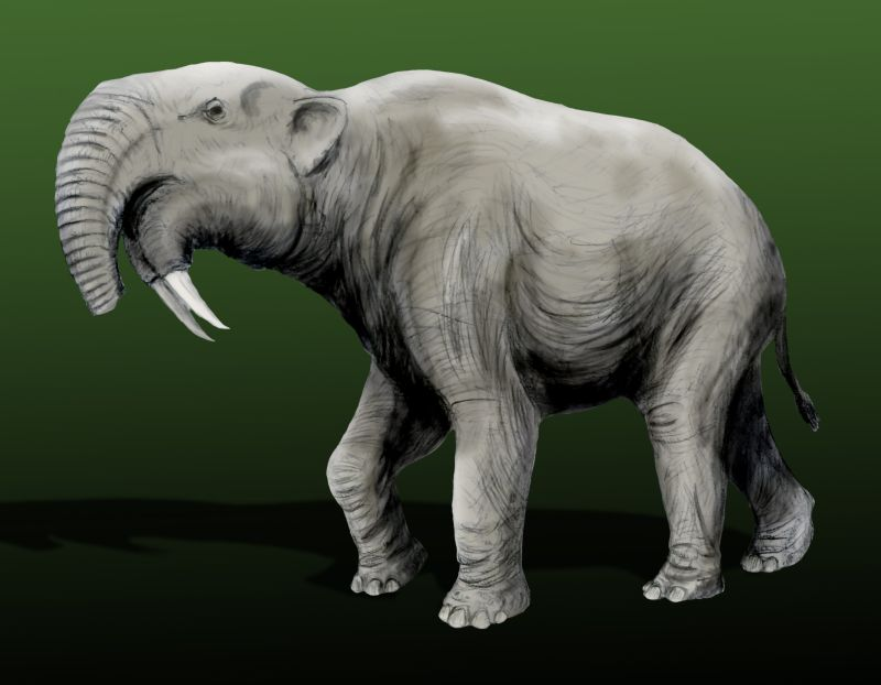 Deinotherium giganteum, Pleistocene of Europe. Digital.